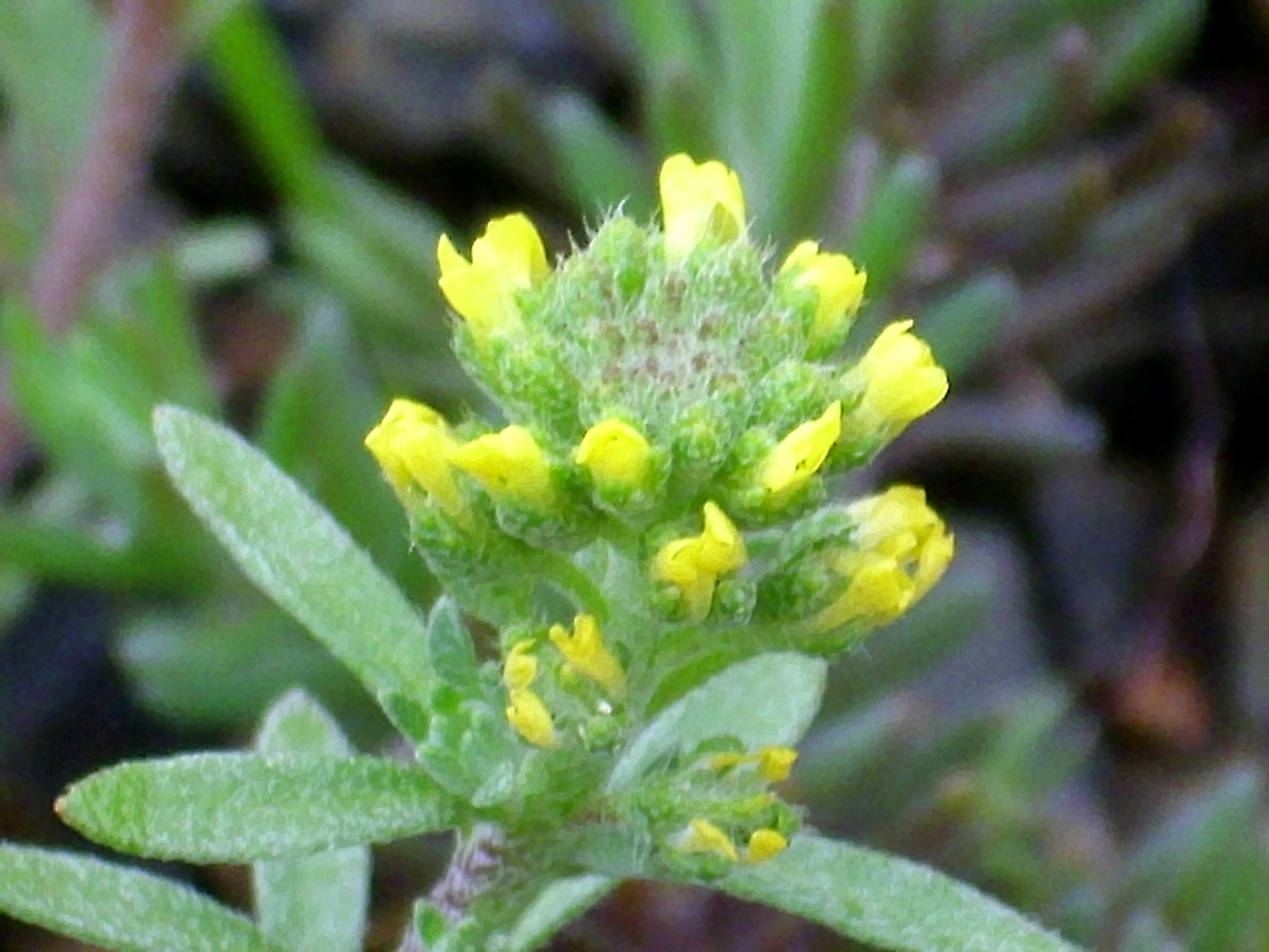 Alyssum granatense flowers close up, Sierra Madrona, Spain